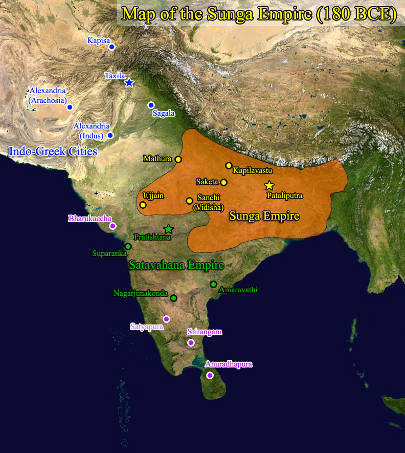 Map of the Sunga Empire based on Oxford University Atlas